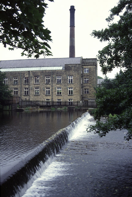 Bamford Mill Cotton Mill, latterly home to electric furnace manufacturers and now converted to housing. Chimney gone but 1907 steam engine preserved in situ. Weir provided head for two water turbines, now scrapped. An early De Laval steam turbine was also scrapped.